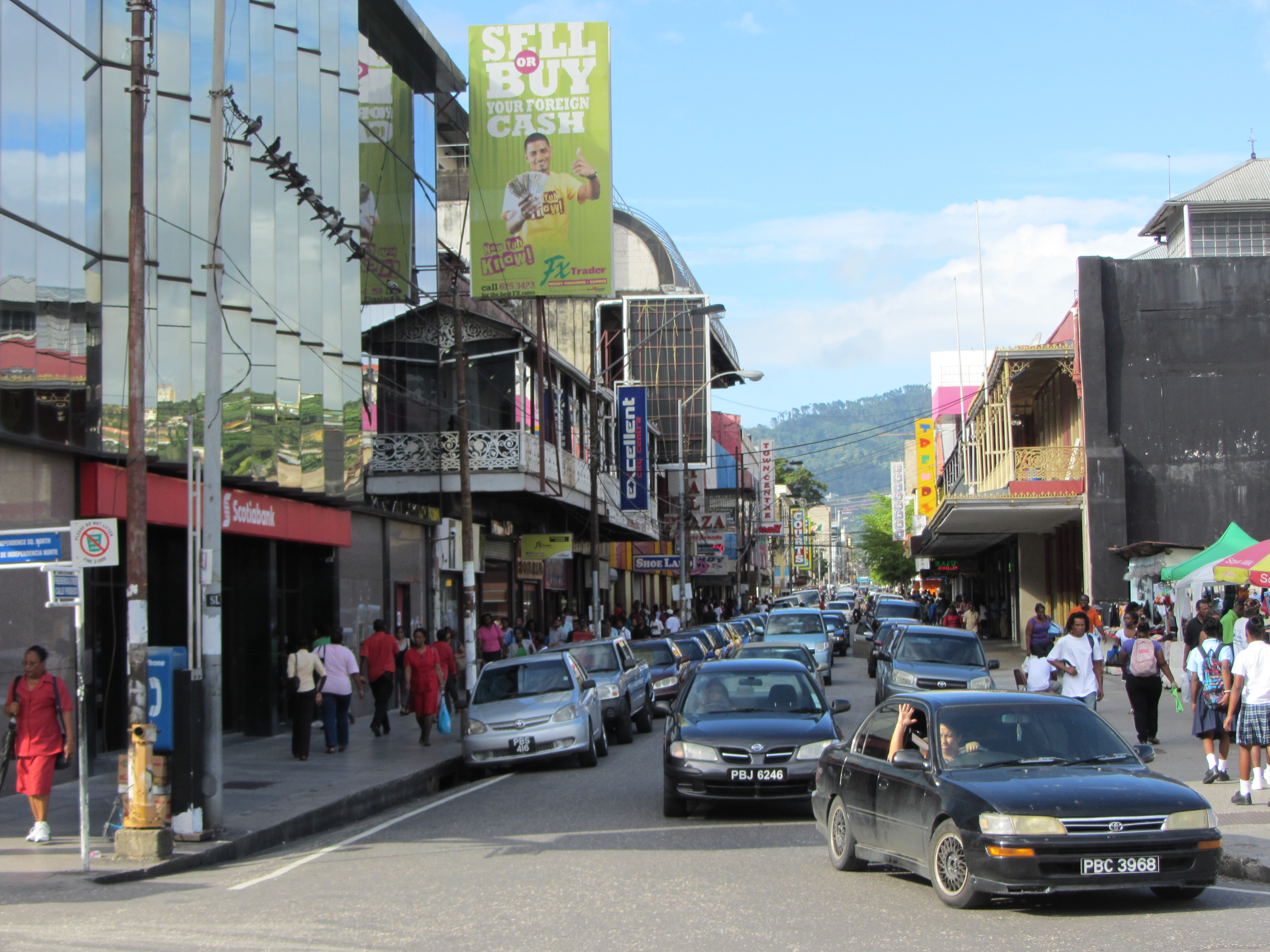 Frederick Street in Port of Spain, Trinidad